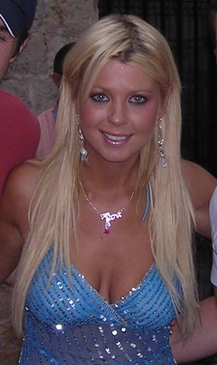 The American actress Tara Reid.